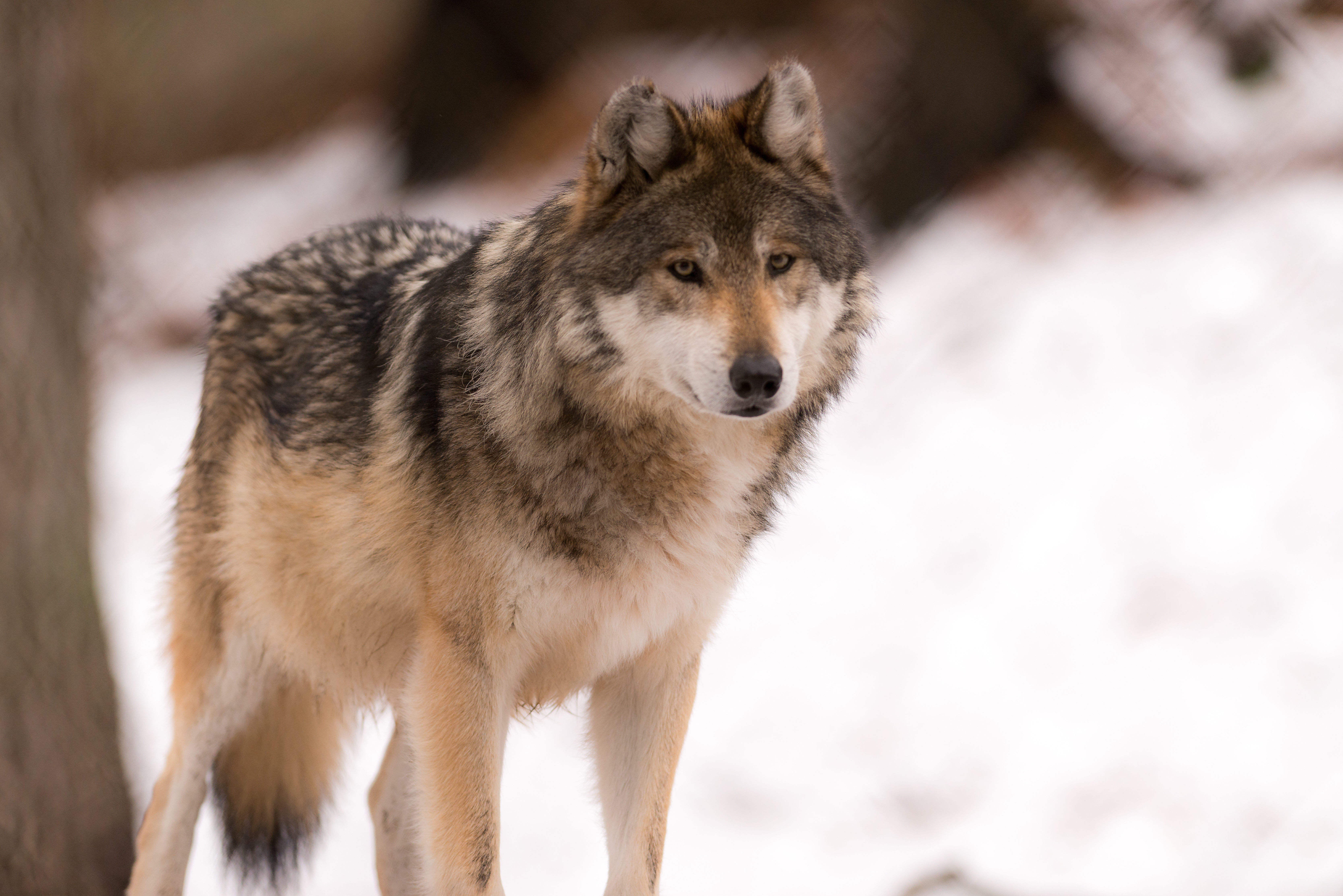 Gray Wolf Standing in the Snow